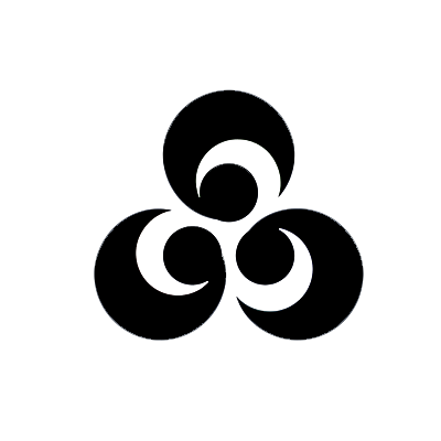 Logo Amazônica TV, the largest broadcasting company of northern Brazil, Manaus, Amazonas State.